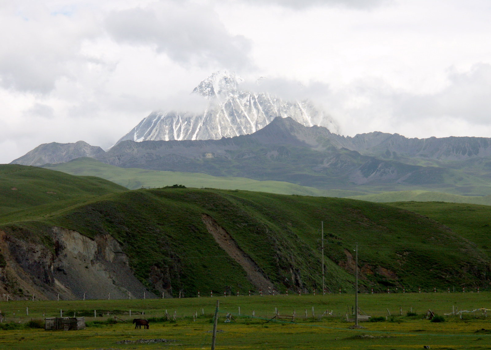 Yala Mountain. Daofu county, Ganzi, Sichuan, China. One of the sacred mountain in Tibetan culture.